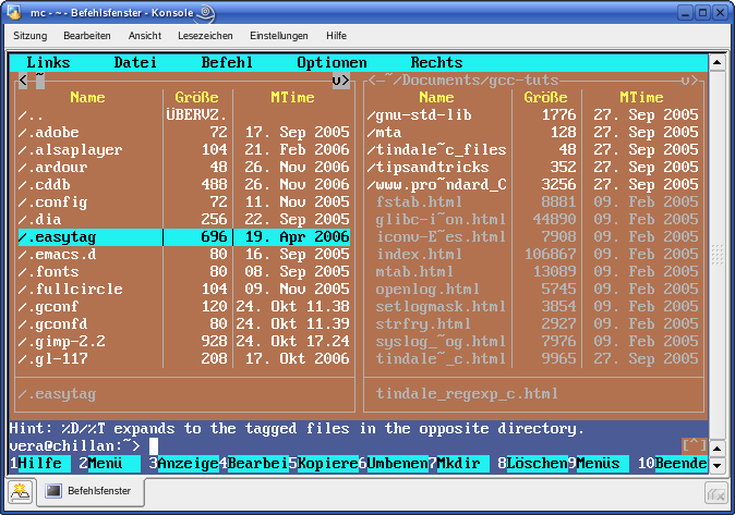 snapshot from midnight commander, the GNU visual shell